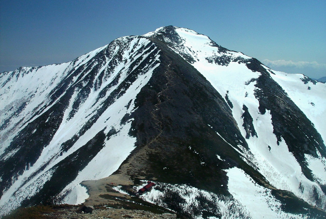 Mount_Jonen_from_Mount_Yokotooshi_2004-5-2